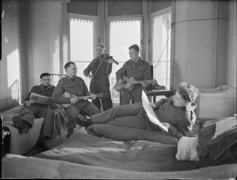 Liberated Russian Prisoners in England- Everyday Life at Their Camp in Worthing, Sussex, England, UK, 1945 In one of the dormitories of their camp in Worthing, a group of Russian liberated prisoners practice on their home-made musical instruments, whilst others reads the newspapers. Left to right, they are:Junior Lieutenant Maresh (reading), Aleksei Matveyenko (playing the balalaika), Private Giroriy Zurabov (playing the violin), Junior Lieutenant George Kharchenko (playing the guitar) and Junior Lieutenant Nagoev (reading the newspaper).